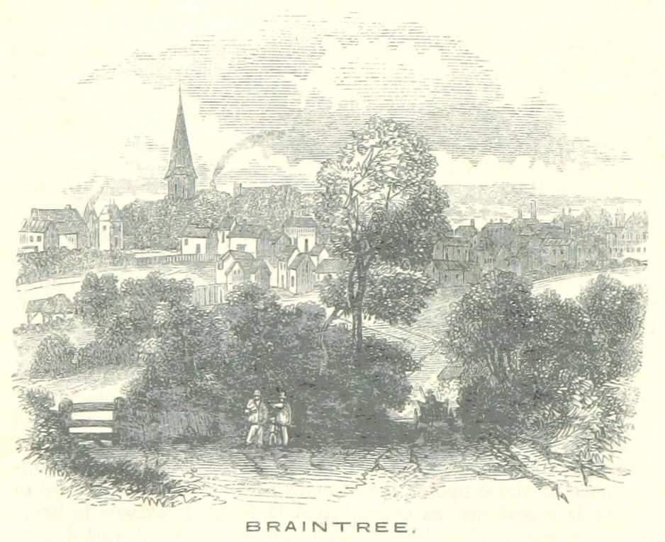 "Braintree is a well-built and improving market town, situated on arising ground, and connected on the north with Bocking. It has some good houses, inns, &c, and has been considerably improved on its south-eastern side, since the railway has been brought in to it, by the erection of a very handsome station, from which a new road has been formed. It contains, together with Bocking, about 7,000 inhabitants. The woollen manufacture, that formerly flourished here, disappeared many years ago,but is succeeded by the silk manufacture, which employs a great number of the inhabitants. The market,held every Wednesday, is well supplied with corn, cattle, and all sorts of provisions; there are two annual fairs, held on May 8th, and October 2nd. The town has a handsome Corn Exchange, built in 1839, at a cost of £3,000, together with a Literary and Mechanics' Institution. There are two ancient parish churches, built in the time of Edward III — that of Braintree, dedicated to Saint Michael, on an elevated site at the south side of the town, and that of Bocking,dedicated to the Virgin, situated on high ground in Bocking, Church Street,and forming a conspicuous object at a considerable distance. We need scarcely add, that there are different dissenting chapels, workhouses, and such other establishments as are usual to be met with in an English town of similar dimensions."